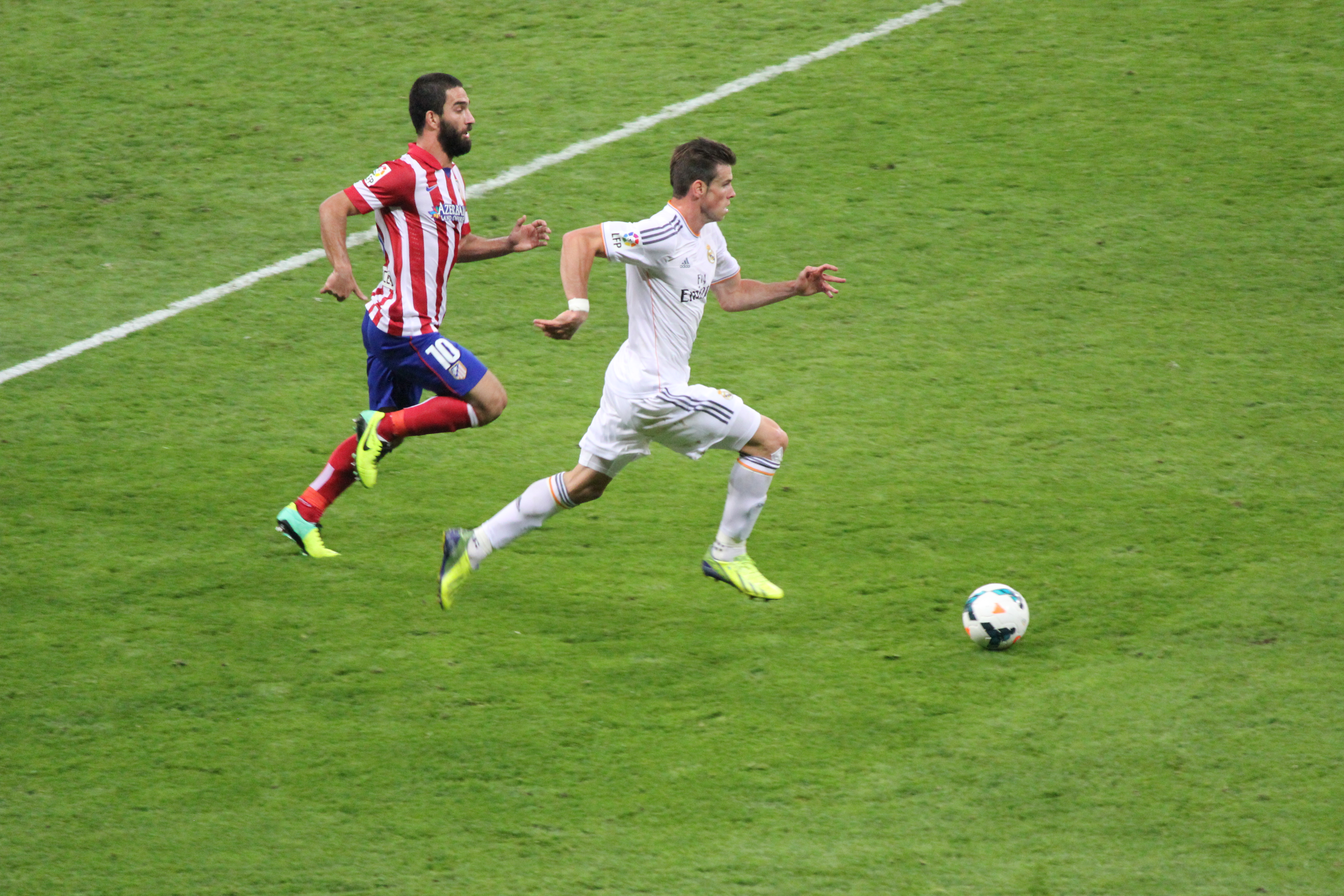 Real Madrid vs. Atlético Madrid 28 September 2013